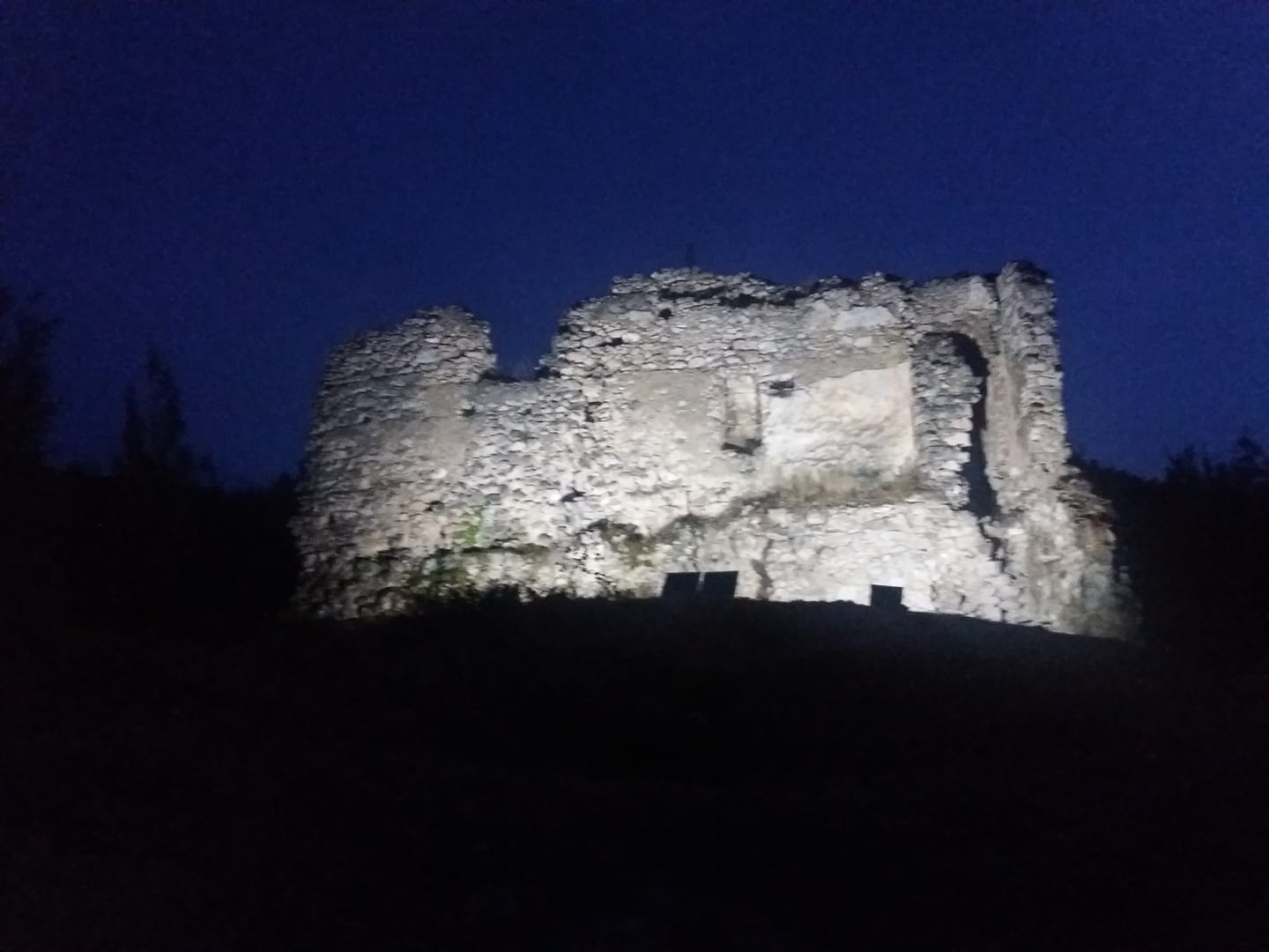 Eremo di Sant'Angelo